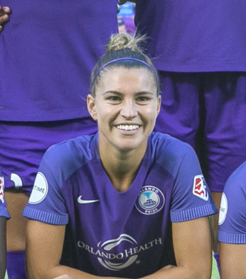 Steph Catley playing for the Orlando Pride in 2017